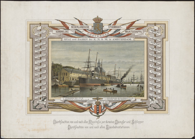 Koninklijke Nederlandsche Stoomboot-Maatschappij, 1876